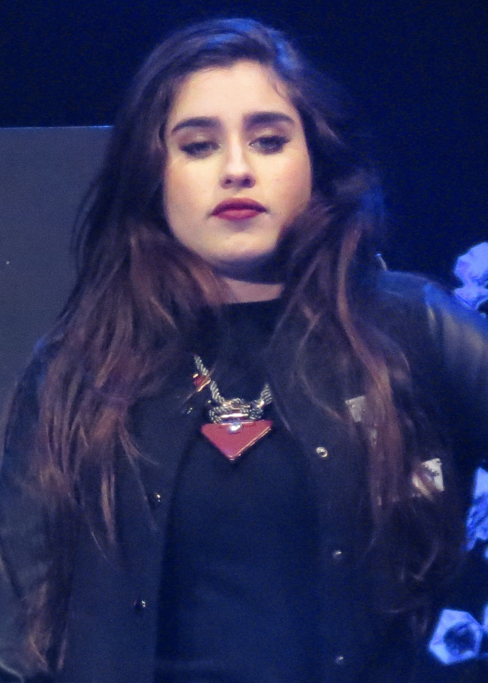 Lauren Jauregui in 2013